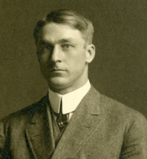 Photograph of Branch Rickey cropped from 1913 Michigan baseball team portrait